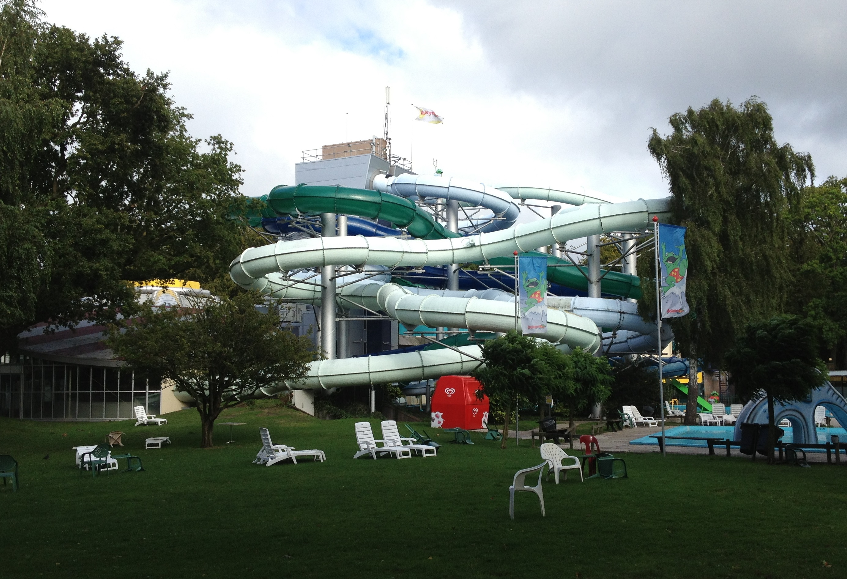 Tikibad at Duirell, the Netherlands